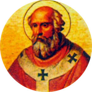 Portait of Pope Leo IX in the Basilica of Saint Paul Outside the Walls, Rome